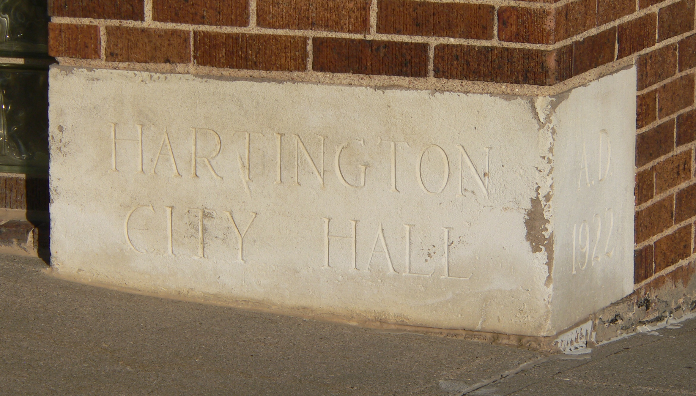 Cornerstone at southwest corner of city auditorium in Hartington, Nebraska.